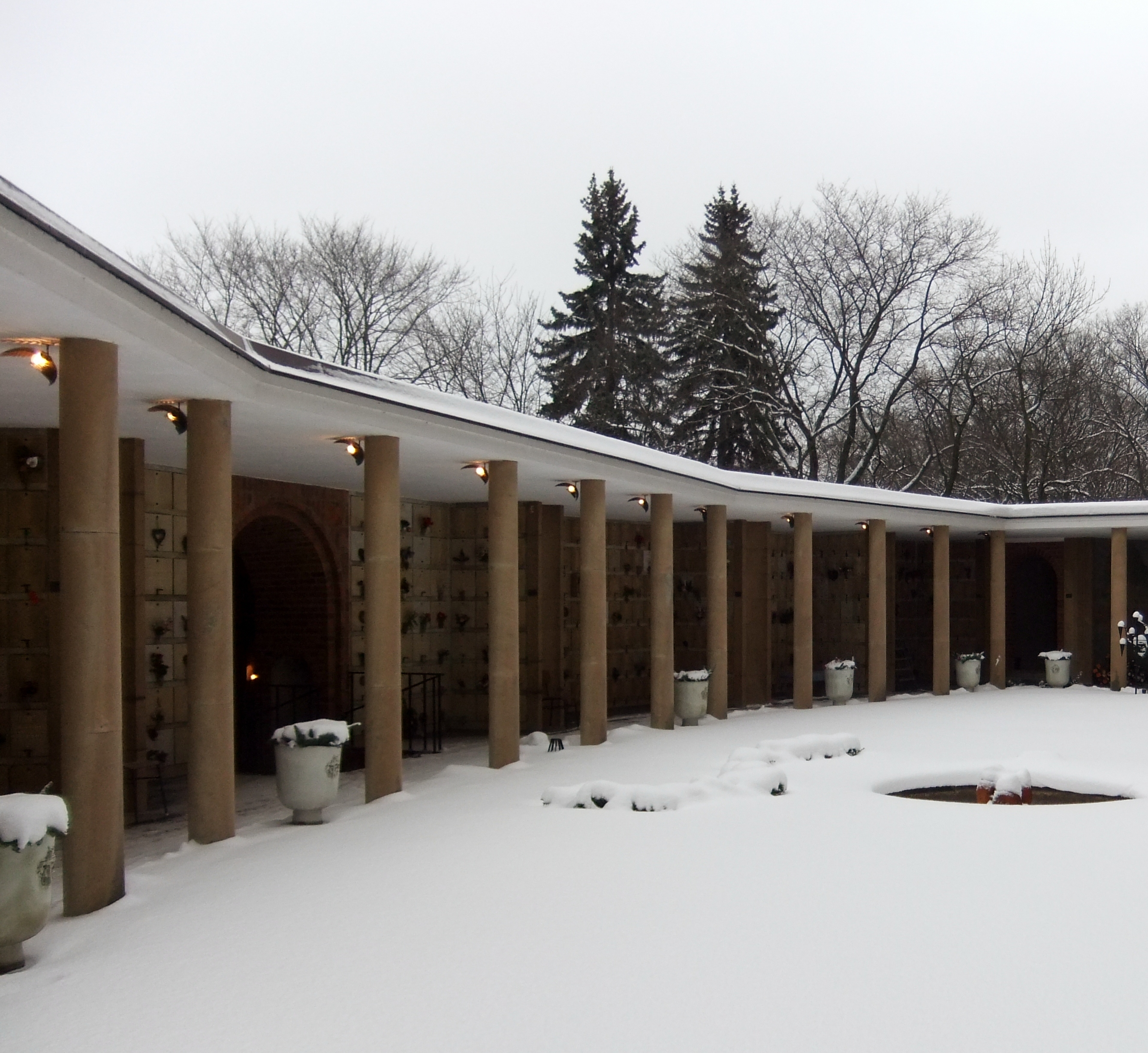 Columbarium in northern Stockholm cemetery built in 1909, with underground tomb.